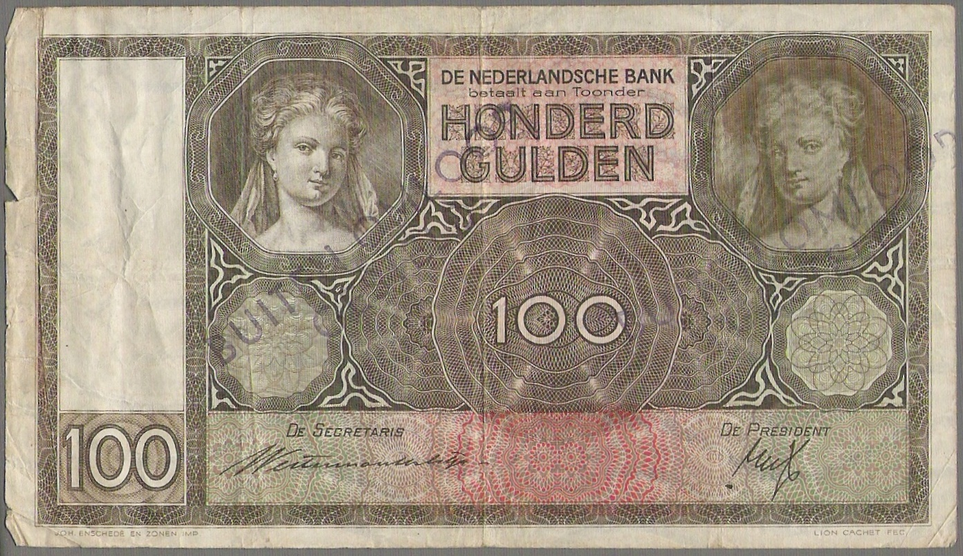 100 guilder banknote (lute player) from 1935, marked Out of circulation.